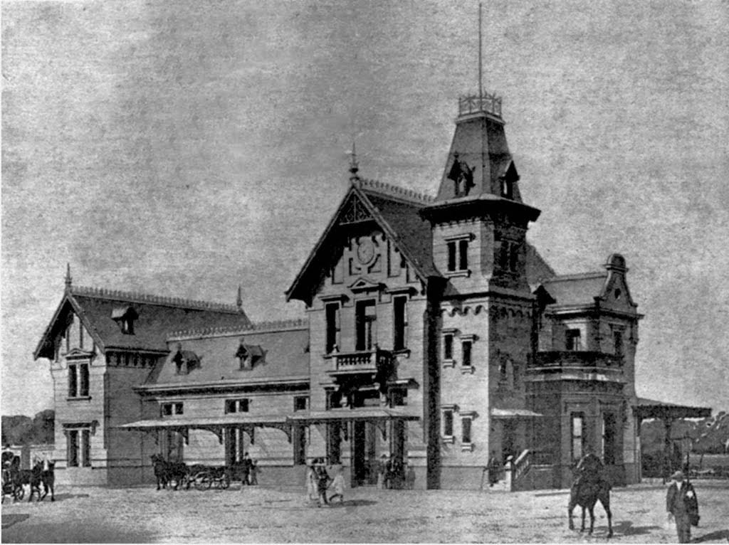 Ramos Mejía train station of BA Western Railway. Inaugurate 1858, has been operating since then.